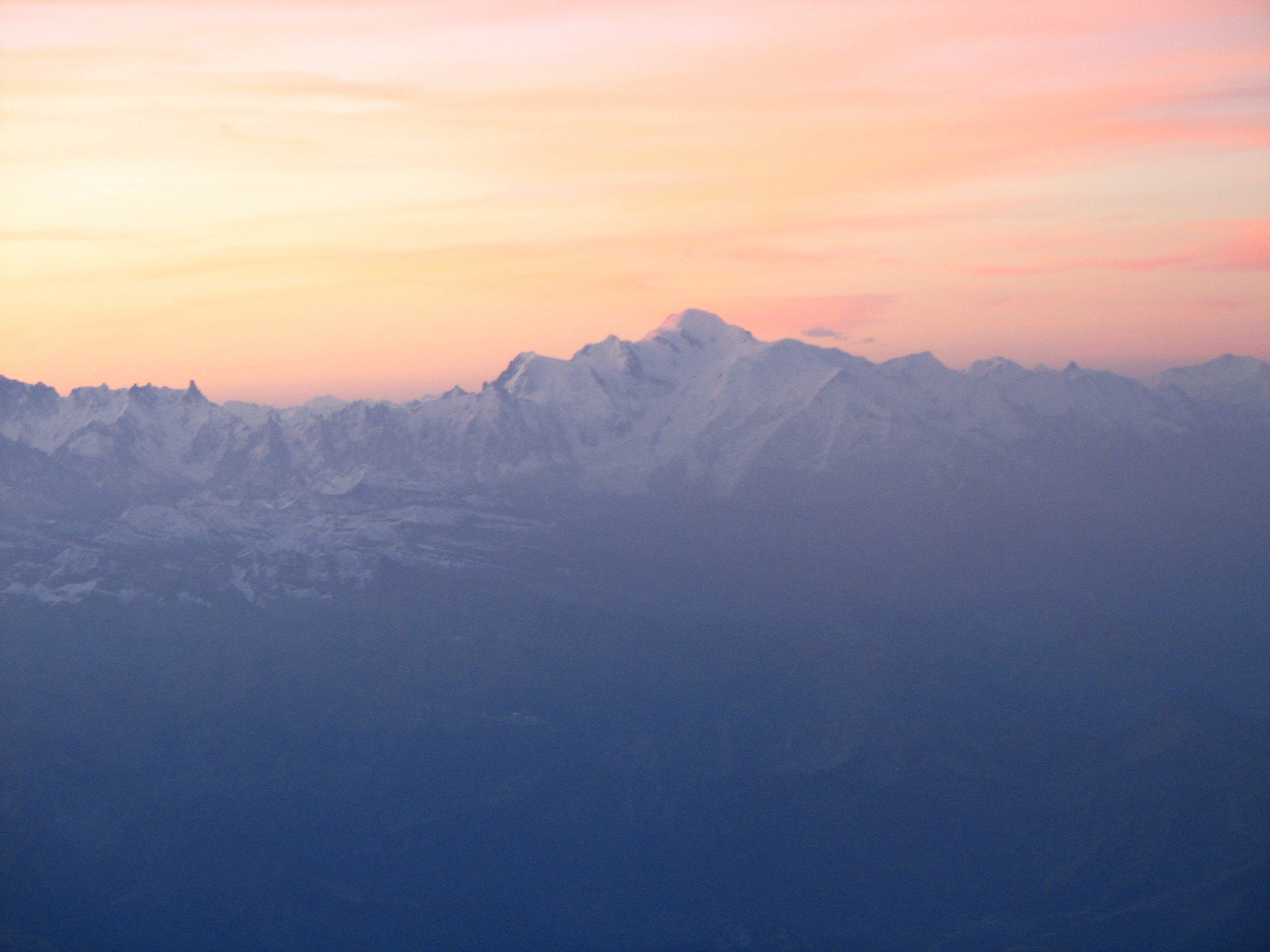 Mont-Blanc (altitude 4810 m), viewed from a plane at down.